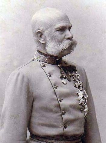 Franz Joseph I. of Austria and Hungaria.